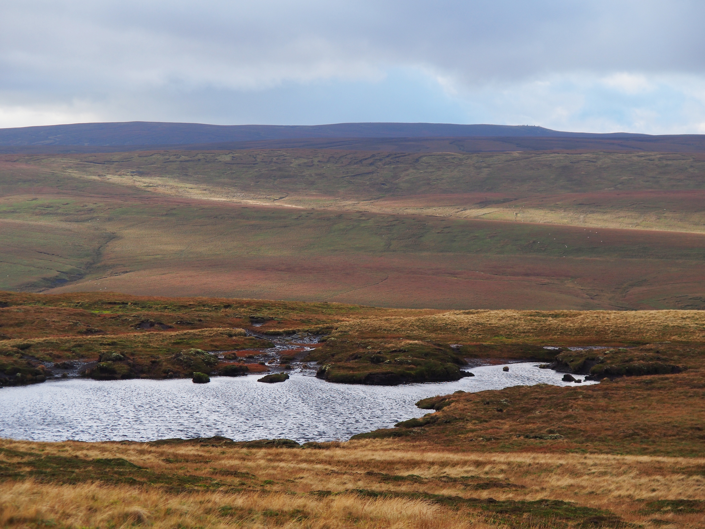 View from Tan Hill towards Nine Standards Rigg (right quarter of horizon)